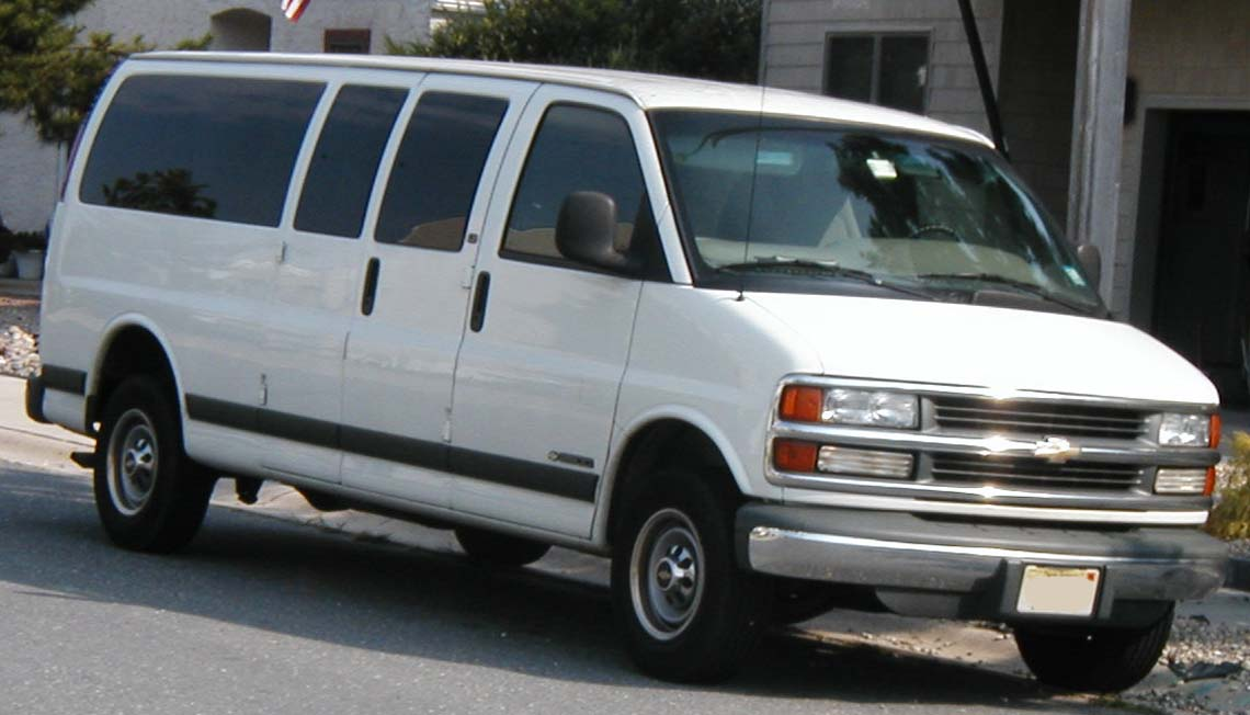 1997-2002 Chevrolet Express photographed in USA.